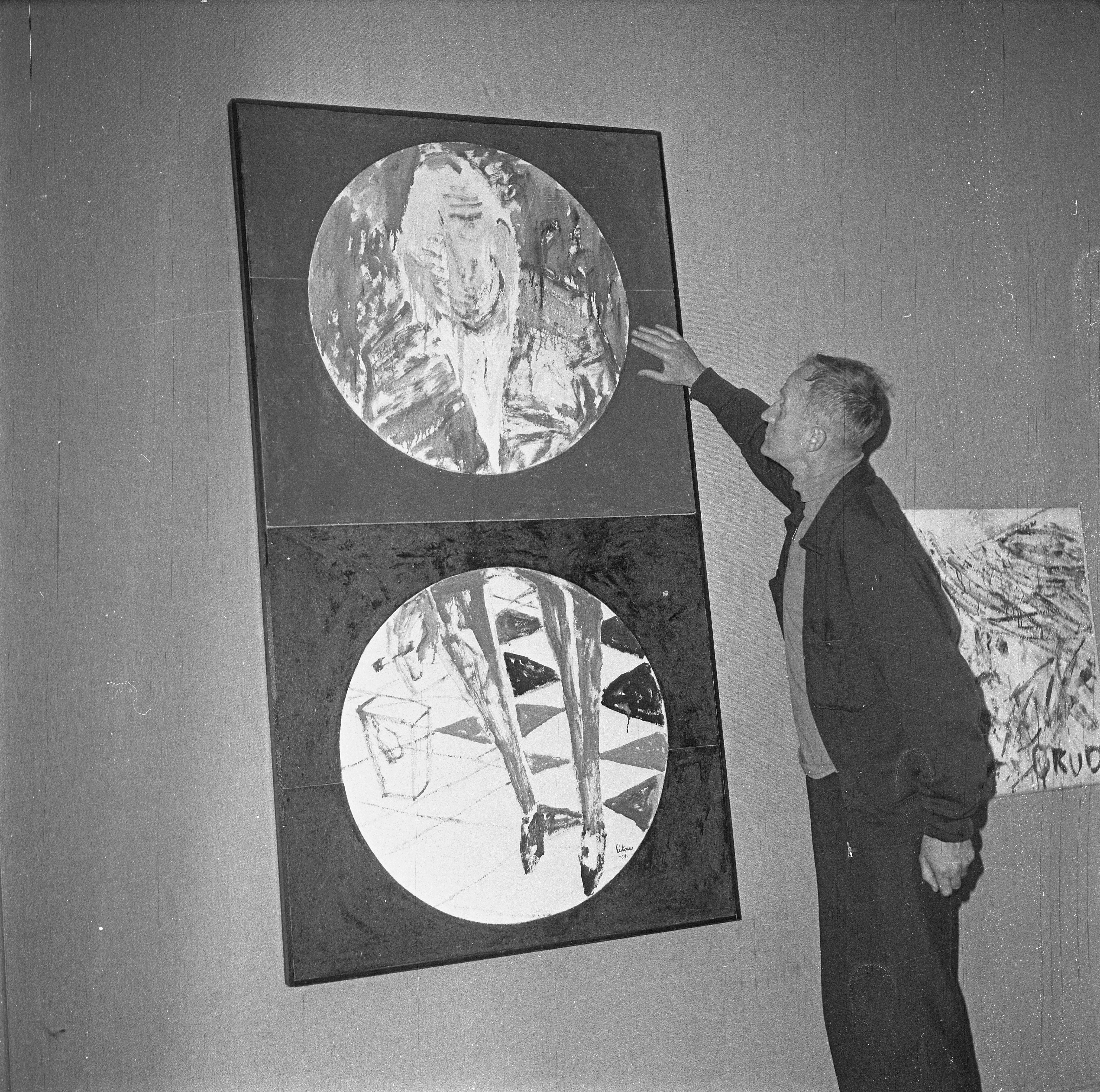 Format: 120 mm sort/hvitt negativ Dato / Date: 1969 Fotograf / Photographer: Eirik Sundvor (1902 - 1992) Sted / Place: Bergen, Hordaland Wikipedia: Ludvig Eikaas (1920 - 2010) Eier / Owner Institution: Trondheim byarkiv, The Municipal Archives of Trondheim Arkivreferanse / Archive reference: Tor.H43.B78.F16018